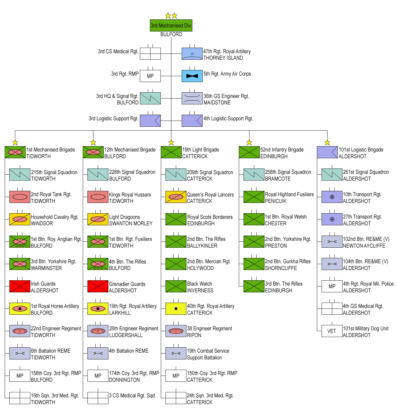 Structure of 3rd (UK) Division in 2008.